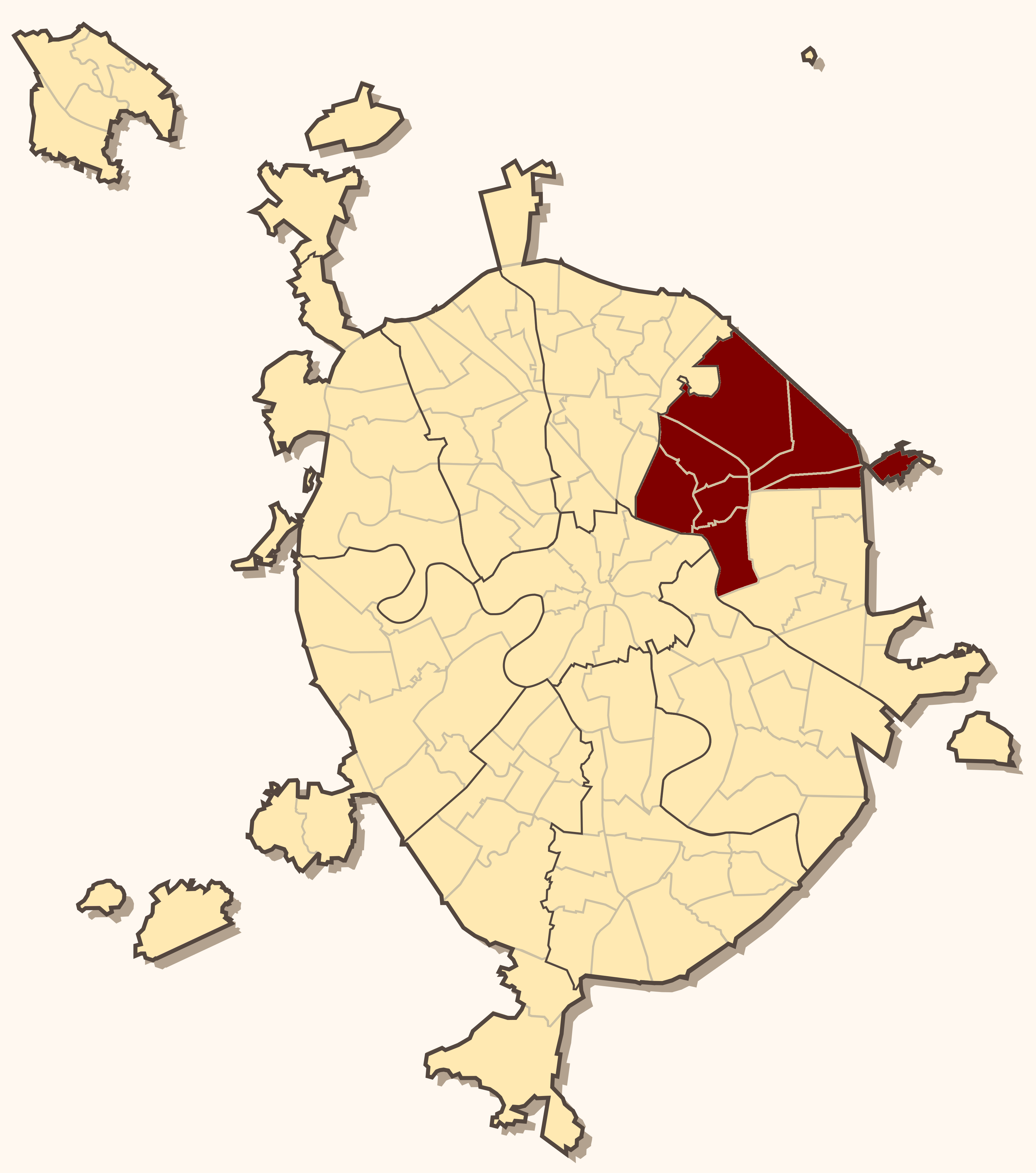 Map of Voskresenskoe Blagochinie of Moscow